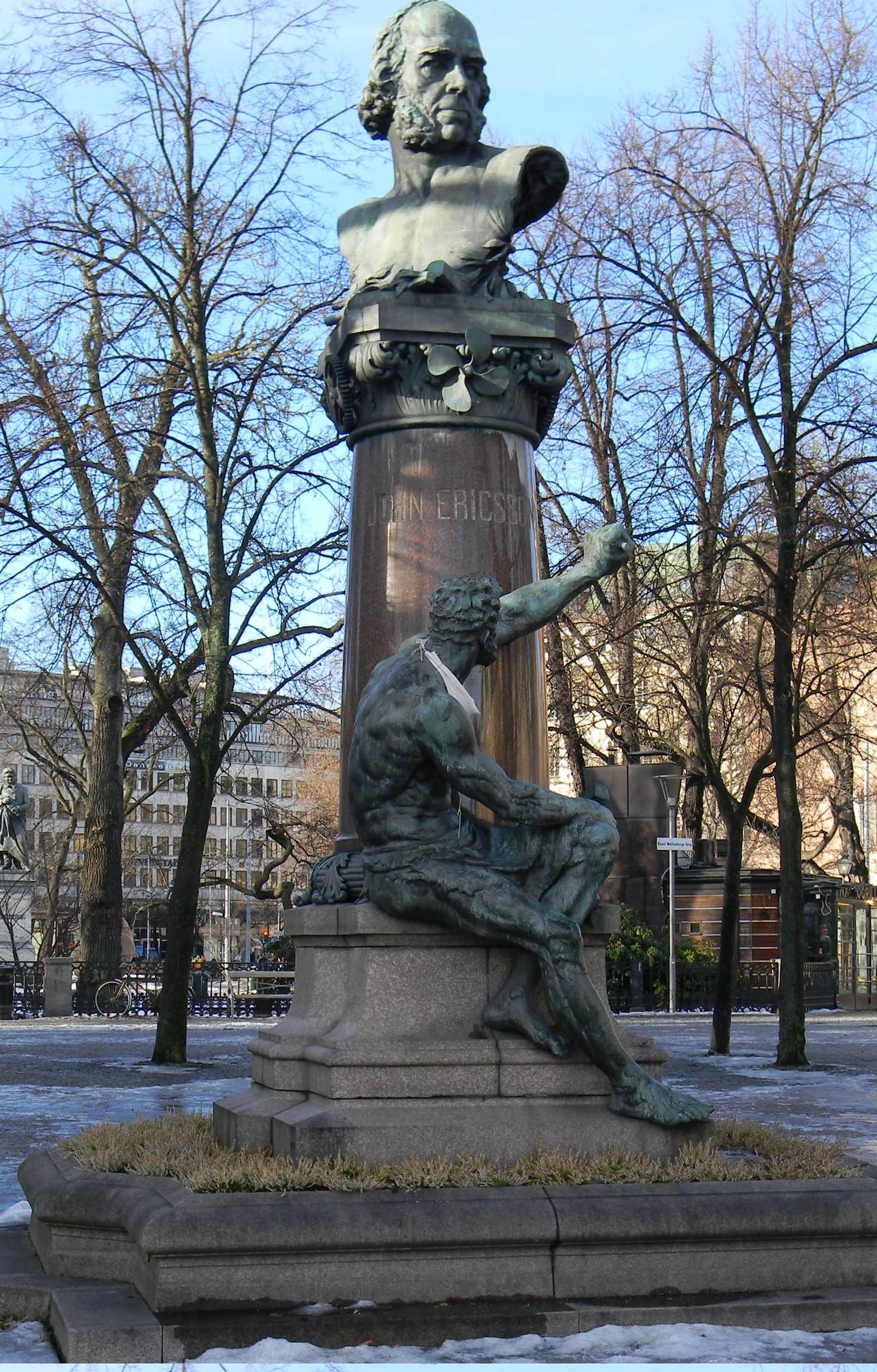 Statue of propeller inventor John Ericsson at Nybroplan (square) in Stockholm